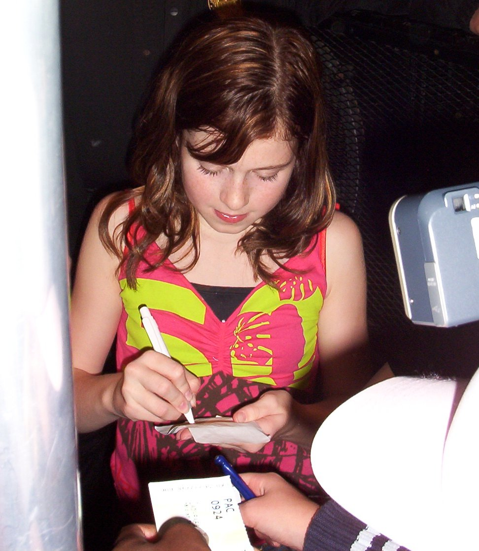 Amy Diamond signing at Palace, Kalmar, Sweden 2005-09-24